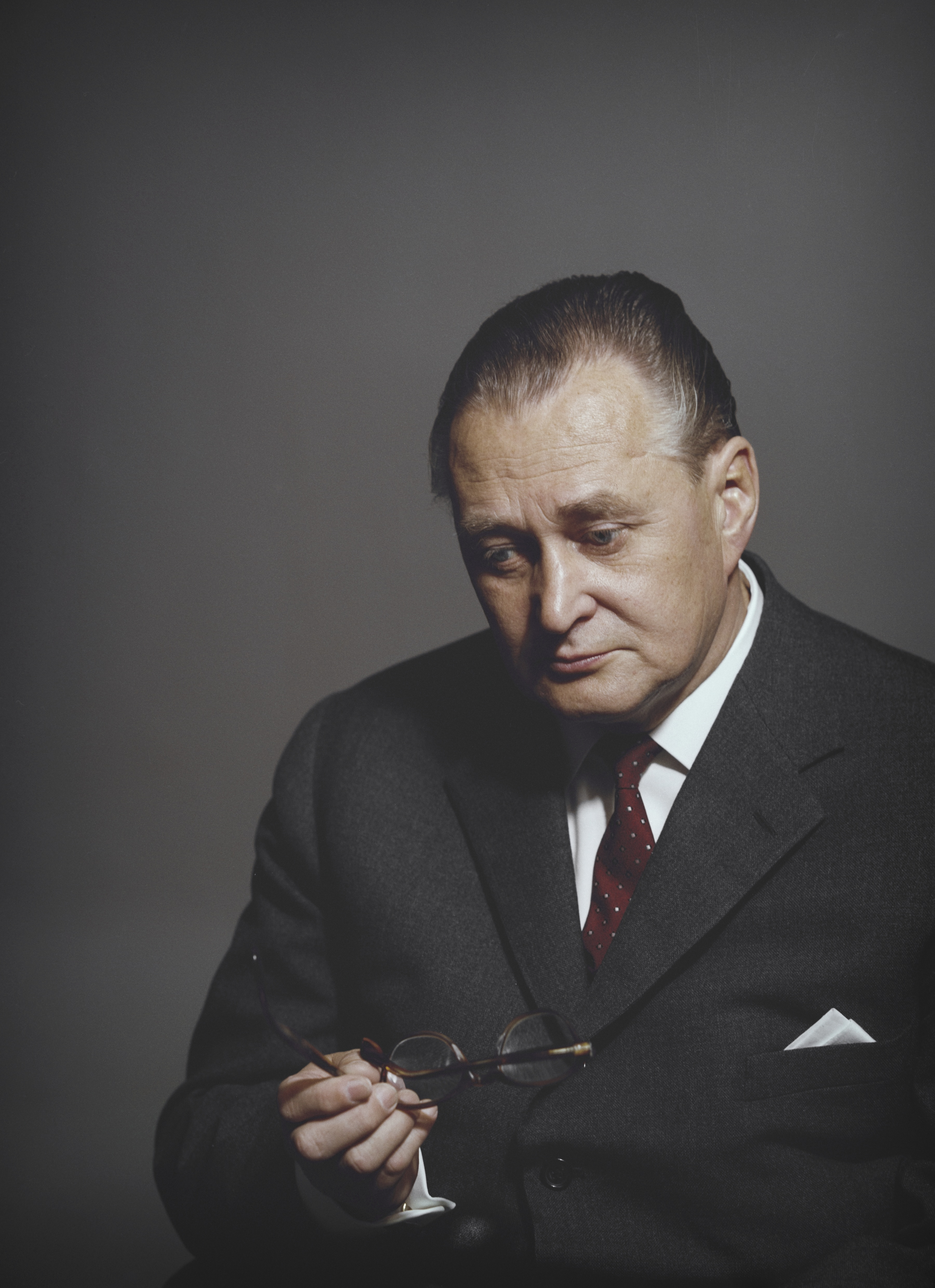 Photograph of the Finnish dentist Mauri Pohto (1905–1989).